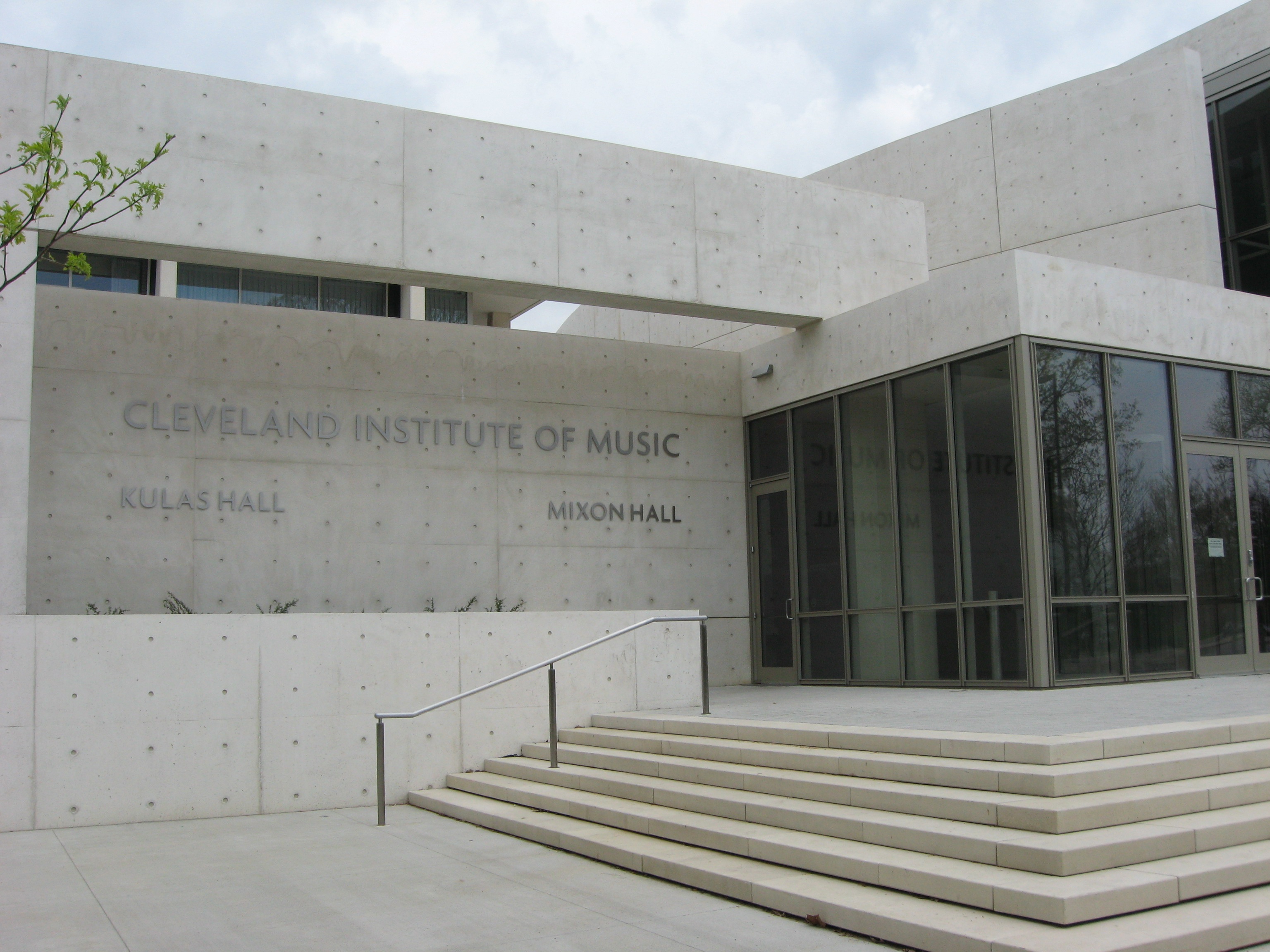 The new East Boulevard entrance of the Cleveland Institute of Music, Cleveland, Ohio, designed by Charles Young.